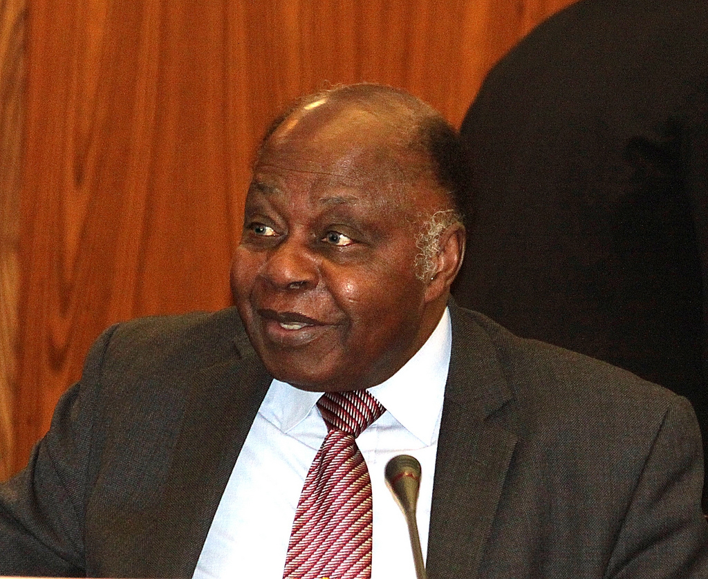 Thomas A. Mensah (born 1932), jurist from Ghana, Professor of International Law; judge at the International Tribunal for the Law of the Sea (ITLOS) from 1996 to 2005